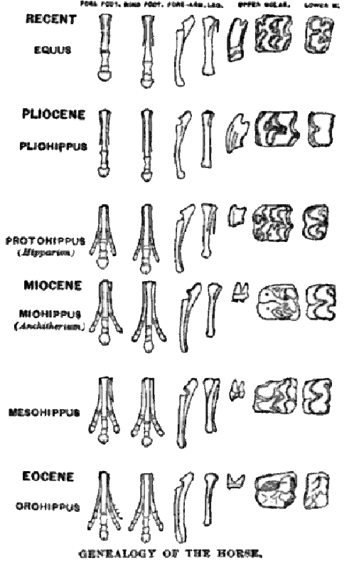 This is a PNG version of Image:Marsh Huxley horse.jpg from Commons. It is a diagram by O. C. Marsh showing evolution of horse feet and teeth over time. It is taken from T.H. Huxley's 1876 book Professor Huxley in America.